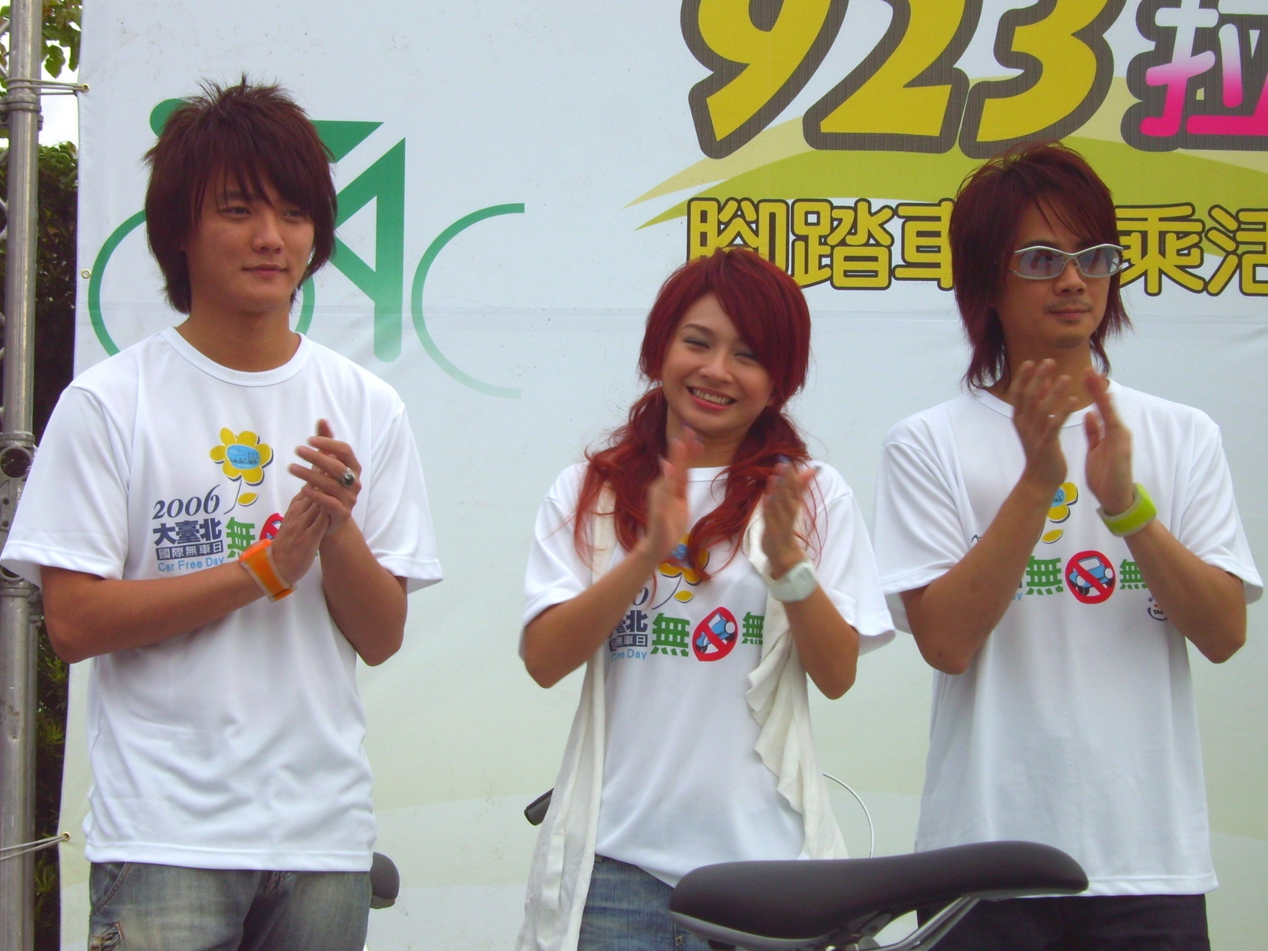 F.I.R., a famous Taiwanese music band, is the spokespeople of 2006 Taipei Car Free Day bicycle riding activity, organized by Taipei City Government and Taipei County Government.